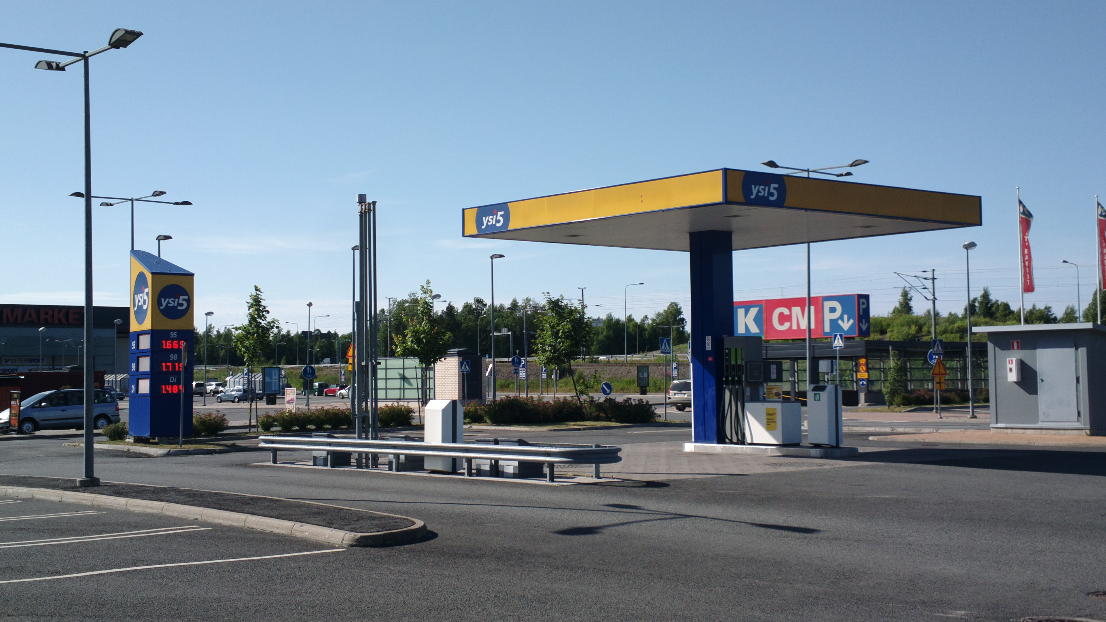 Ysi5 (St1) petrol station Rauma. Belongs to St1 chain